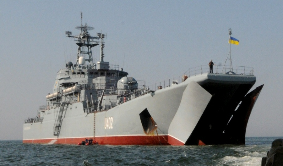 100715-N-0046R-015 TENDRA, Ukraine (July 15, 2010) The Ukrainian navy ship LST Konstantn Olsnanskly (U 402) is anchored in the Black Sea during an exercise Sea Breeze 2010 anti-piracy exercise in the Black Sea. The exercise simulated landing on an island overrun by pirates. Sea Breeze is the largest exercise this year in the Black Sea, with 20 ships, 13 aircraft and more than 1,600 military members from Azerbaijan, Austria, Belgium, Denmark, Georgia, Germany, Greece, Moldova, Sweden, Turkey, Ukraine and the U.S.